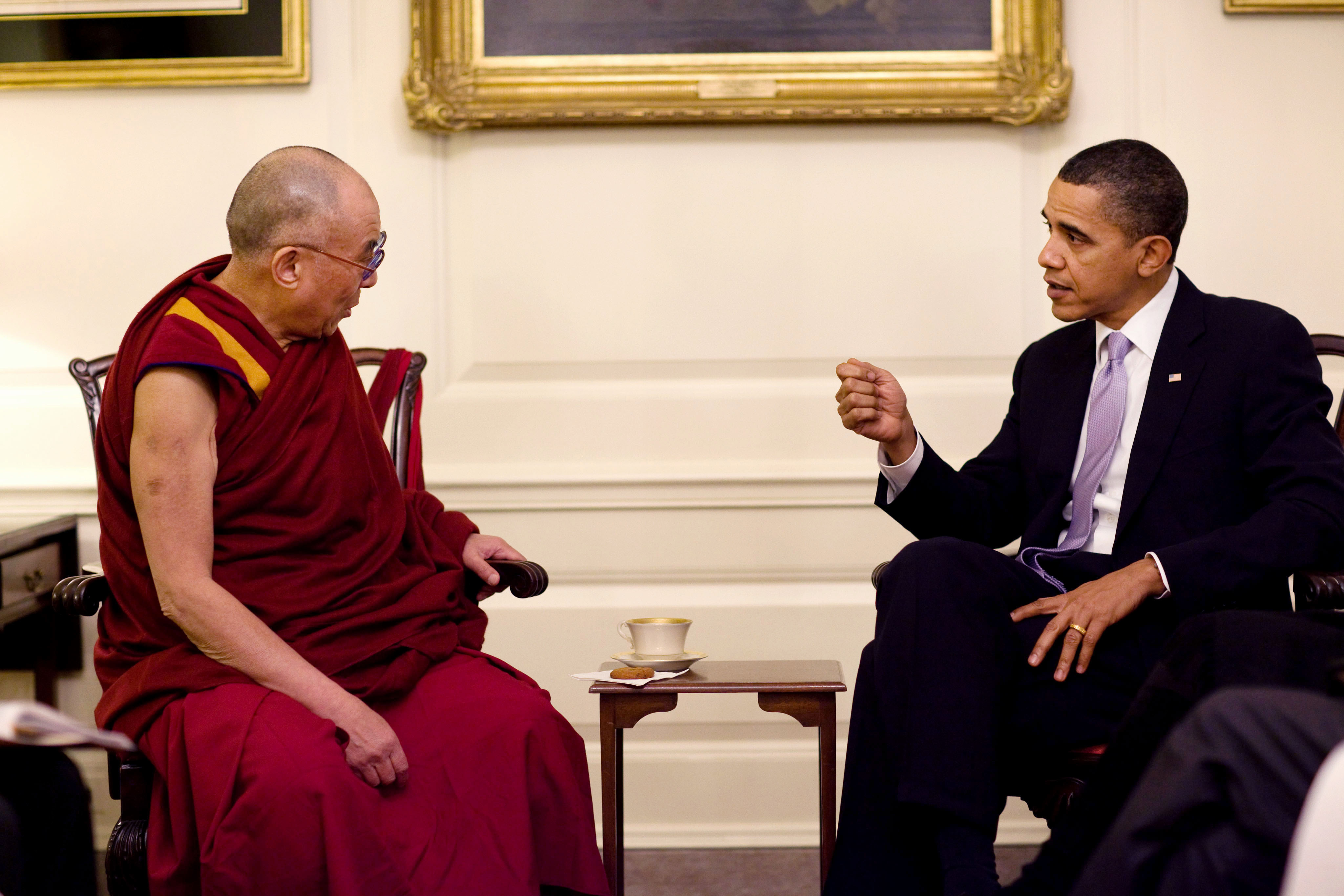 United States President Barack Obama meets with His Holiness the Dalai Lama in the Map Room of the White House on 18 February 2010.